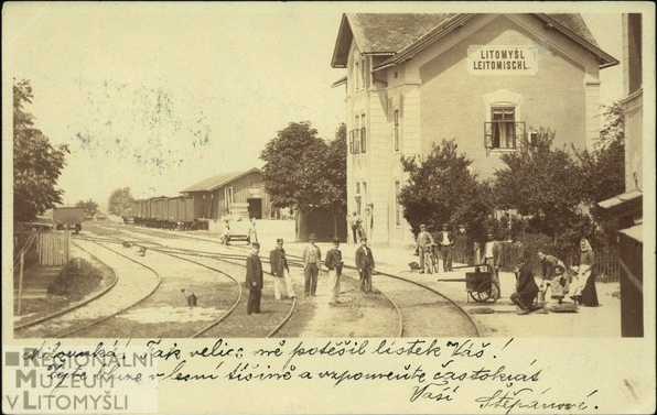 Historic postcard of Litomyšl train station